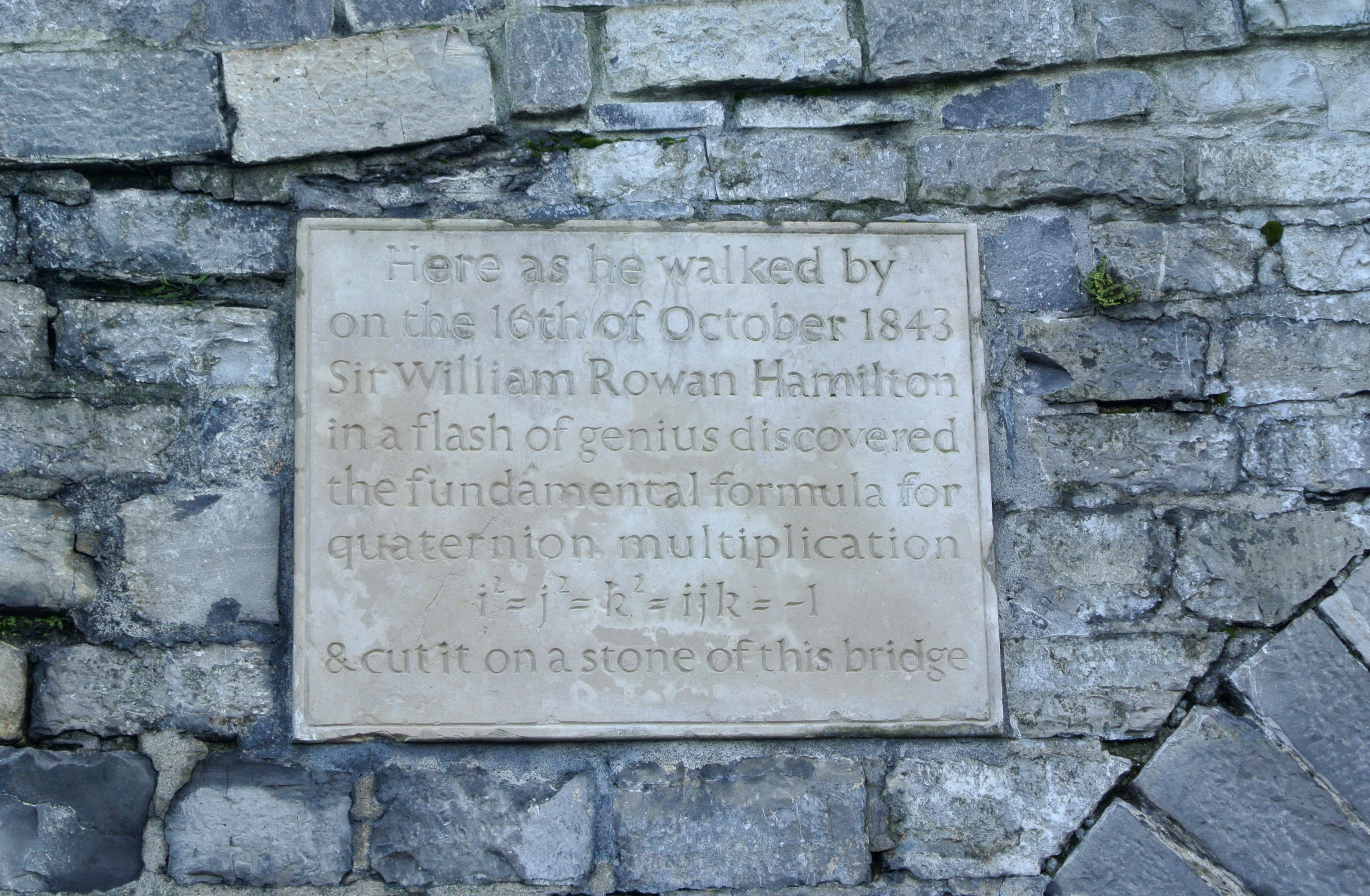 The inscription says: Here as he walked by on the 16th of October 1843 Sir William Rowan Hamilton in a flash of genius discovered the fundamental formula for quaternion multiplication i²=j²=k²=ijk=-1 & cut it on a stone of this bridge